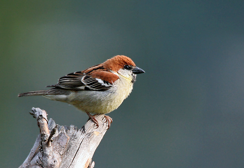 Russet Sparrow (Passer rutilans) in Kullu District of Himachal Pradesh, India. Generally seen (keeps in flocks outside breeding season- April to August) in summers from 4000 ft. to 9000 ft. in light forests & near hill villages & human habitation, taking place of House Sparrows, where they do not occur. It has sides of throat & center of belly pale yellow. Taken at Guna Pani (8500 ft.) in Himachal during Sar Pass Trek in May'07.